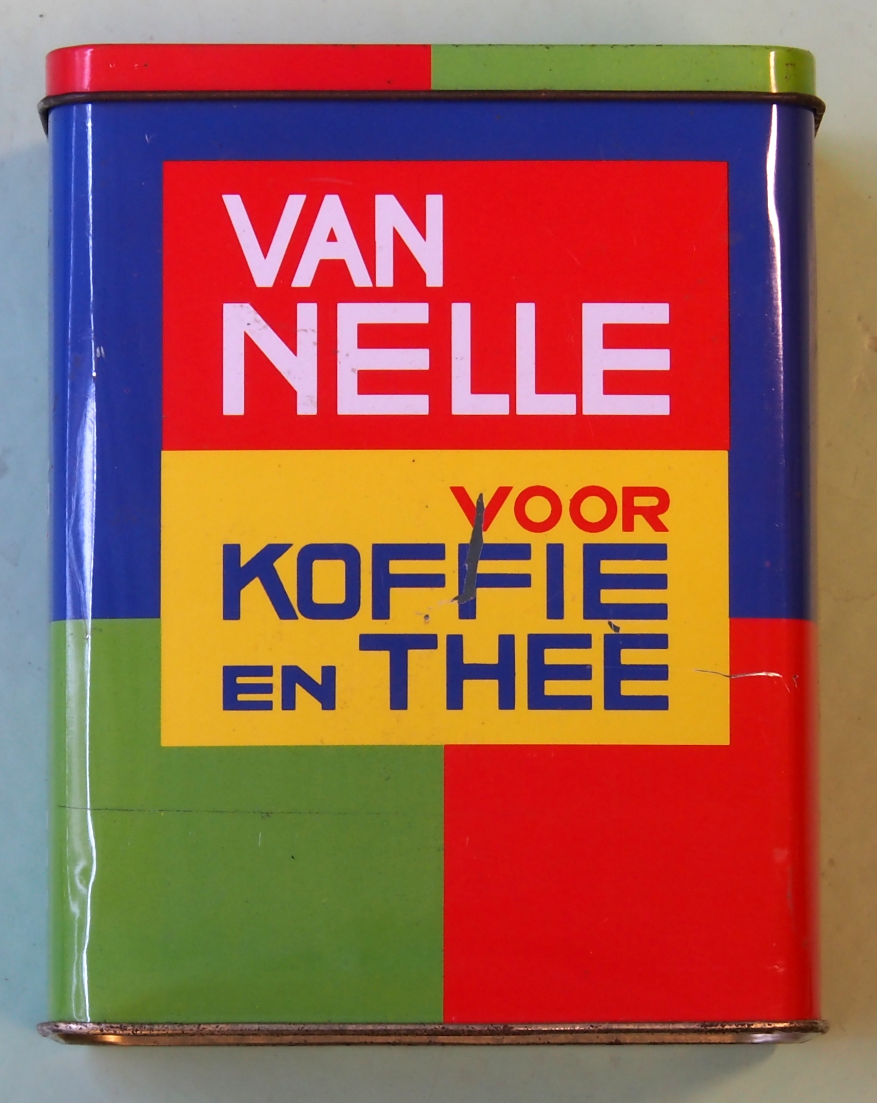 Very old product that was produced a long time ago and/or the company does not exist anymore! Van Nelle voor Koffie en Thee blik.